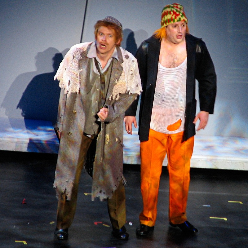 Image of comedians David Mitchell and Robert Webb from their The Two Faces of Mitchell and Webb live stage show.